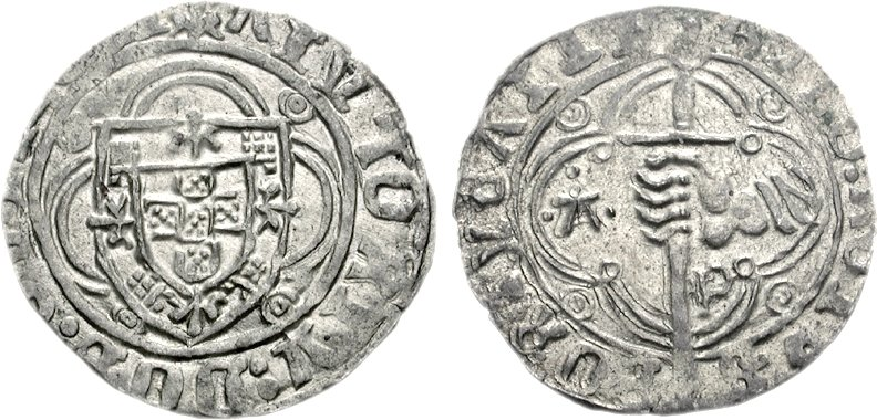 PORTUGAL, Kingdom. Afonso V o Africano (the African). 1438-1481. BI Espadim (22mm, 1.41 g, 2h). Porto mint. (lis) ΛIVTORIV : DOS : OVI : FЄCI, Portuguese coat-of-arms set on quadrilobe; pellet-in-annulet in spandrels / AILO : RЄISS PORTVGAII E •, manus Dei holding sword by blade downward; P to lower right; to left, A flanked by three pellets; all within quadrilobe; arches ending in annulets; pellet-in-annulet in spandrels. Cf. Gomez 24.01-3; cf. Vaz A5.74-5. EF. Exceptional quality metal and strike for issue. Ex G.W. de Wit Collection; Münz Zentrum 29 (27 April 1977), lot 2830.